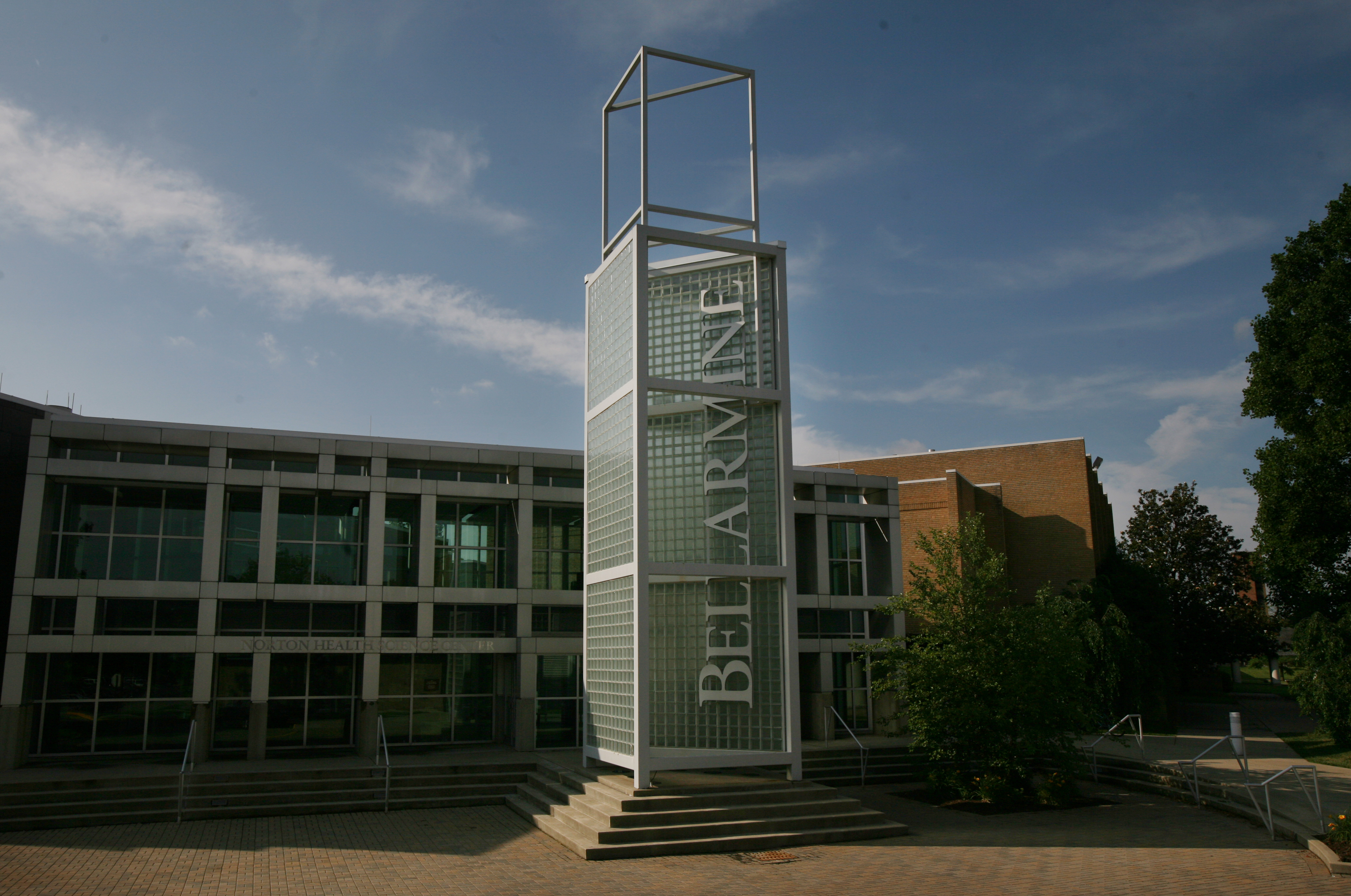 A picture I took of the NHSC building.